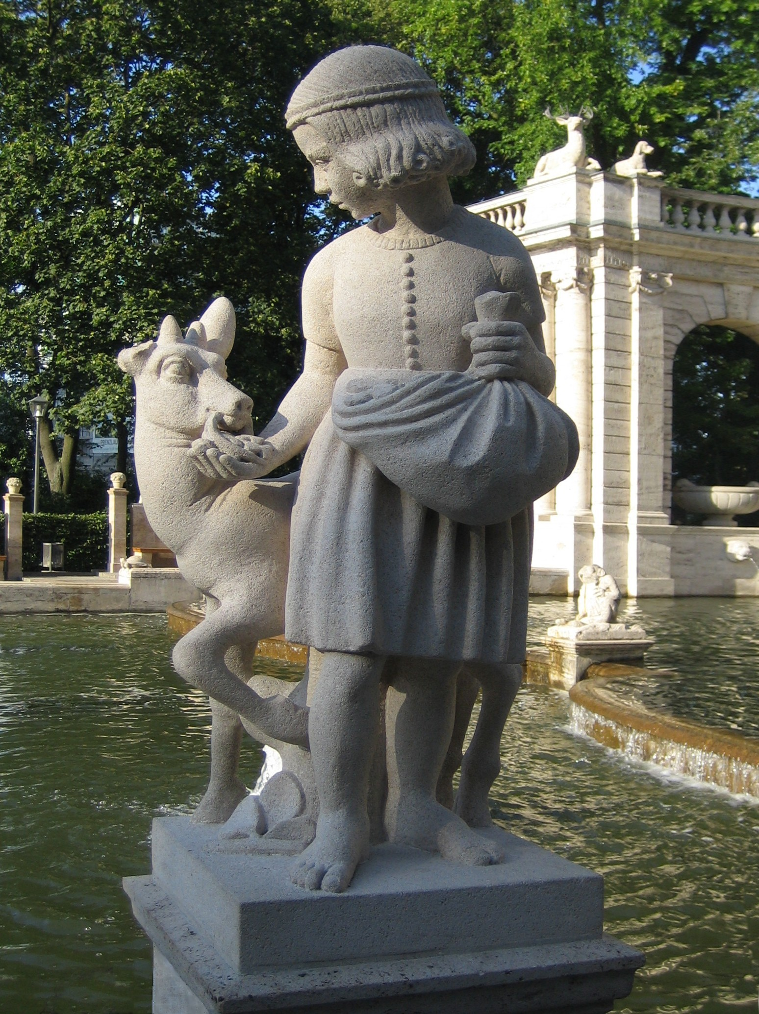 Friedrichshain locality of Berlin: Märchenbrunnen (fairy tale fountain) in the Volkspark Friedrichshain park, sculpture on the Brothers Grimm fairy tale «Brother and Sister» by Ignatius Taschner.